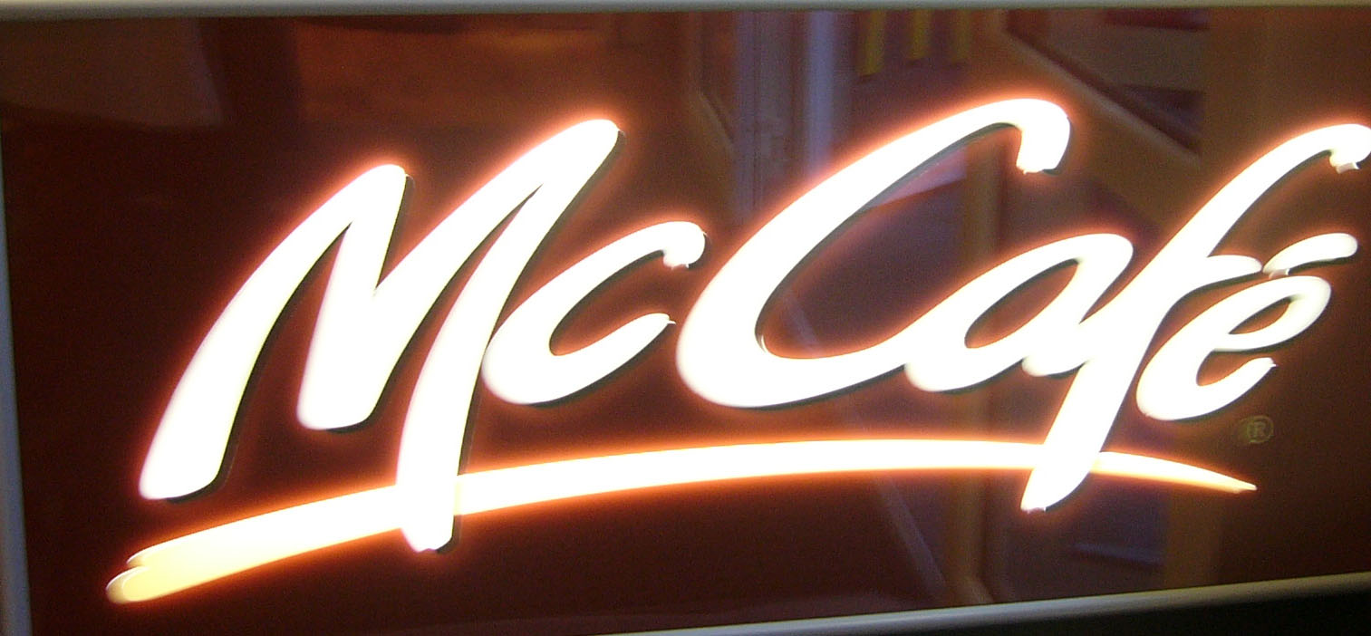 Logo of McCafé (McDonald's).